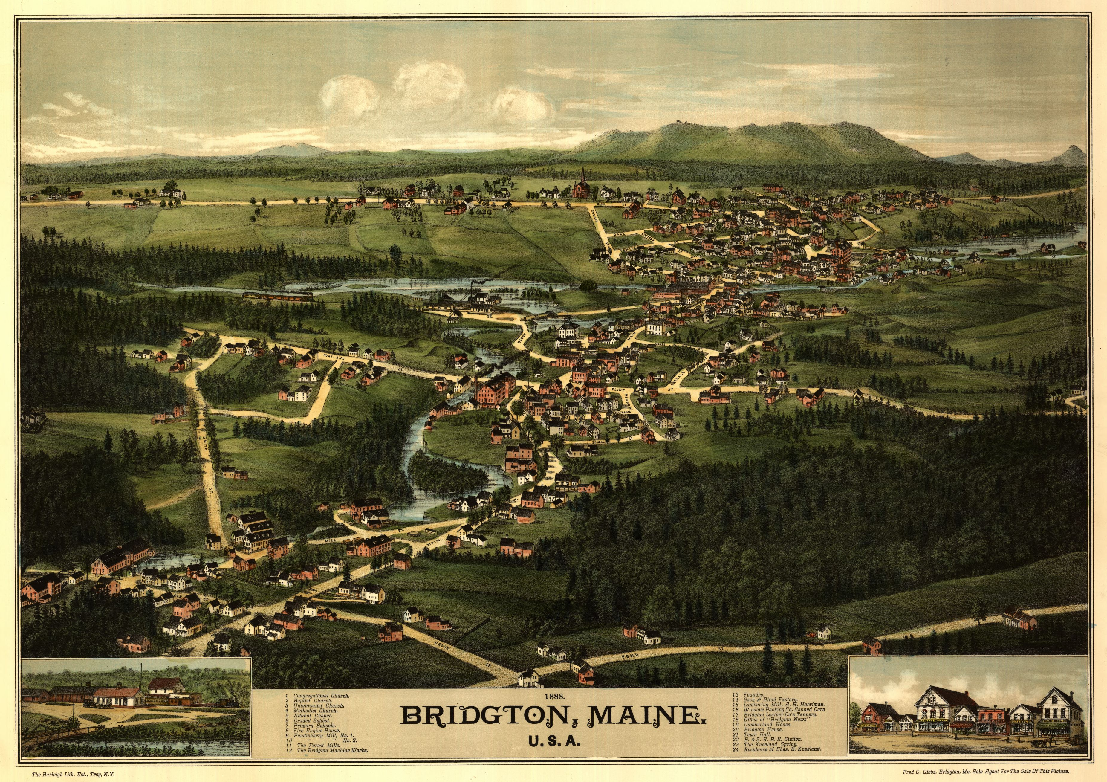 Bird's eye view of Bridgton, Maine, United States, in 1888. Not drawn to scale.